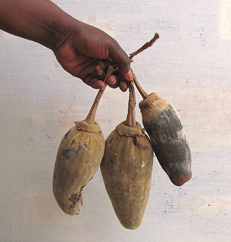 Three examples of typical mature fruits of the Adansonia digitata baobab tree. Somewhat lightweight for their size, the skin is now very hard. The greenish outer covering which gives the fruits a velvety appearance, (but is somewhat irritating to the skin, so the fruits are typically handled only by their stems) wears off, thus the variance in colors as seen here. The pulp inside is very dry, so it can be stored as is, unlike other fruits. Called 'bouye' in Wolof, in Senegal, but names vary between languages and countries. High in vitamin C, it is a very tart fruit, so sugar is usually added to moderate the tartness. Scale: the largest of these shown measured 21 cm in length (not including stem) and 28 cm in circumference at the widest part.